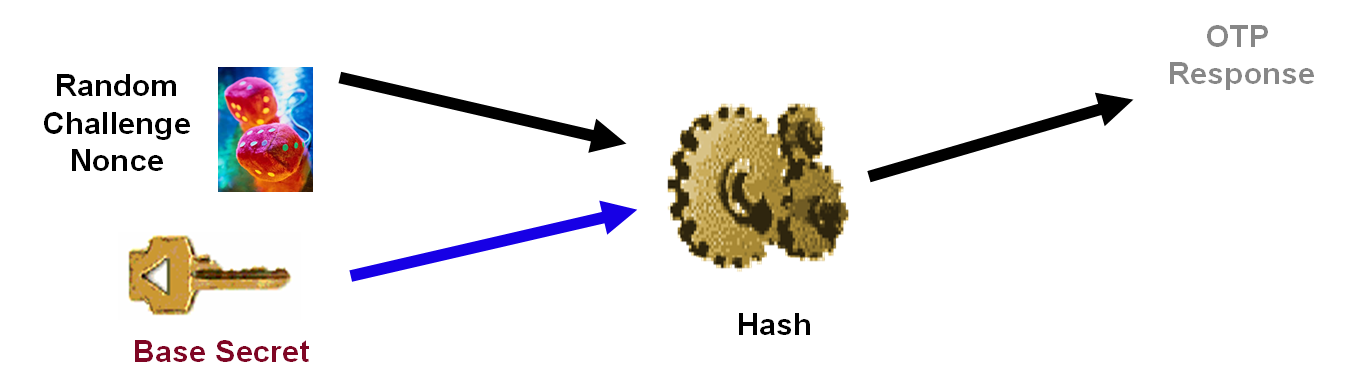 OTP Challenge Responce